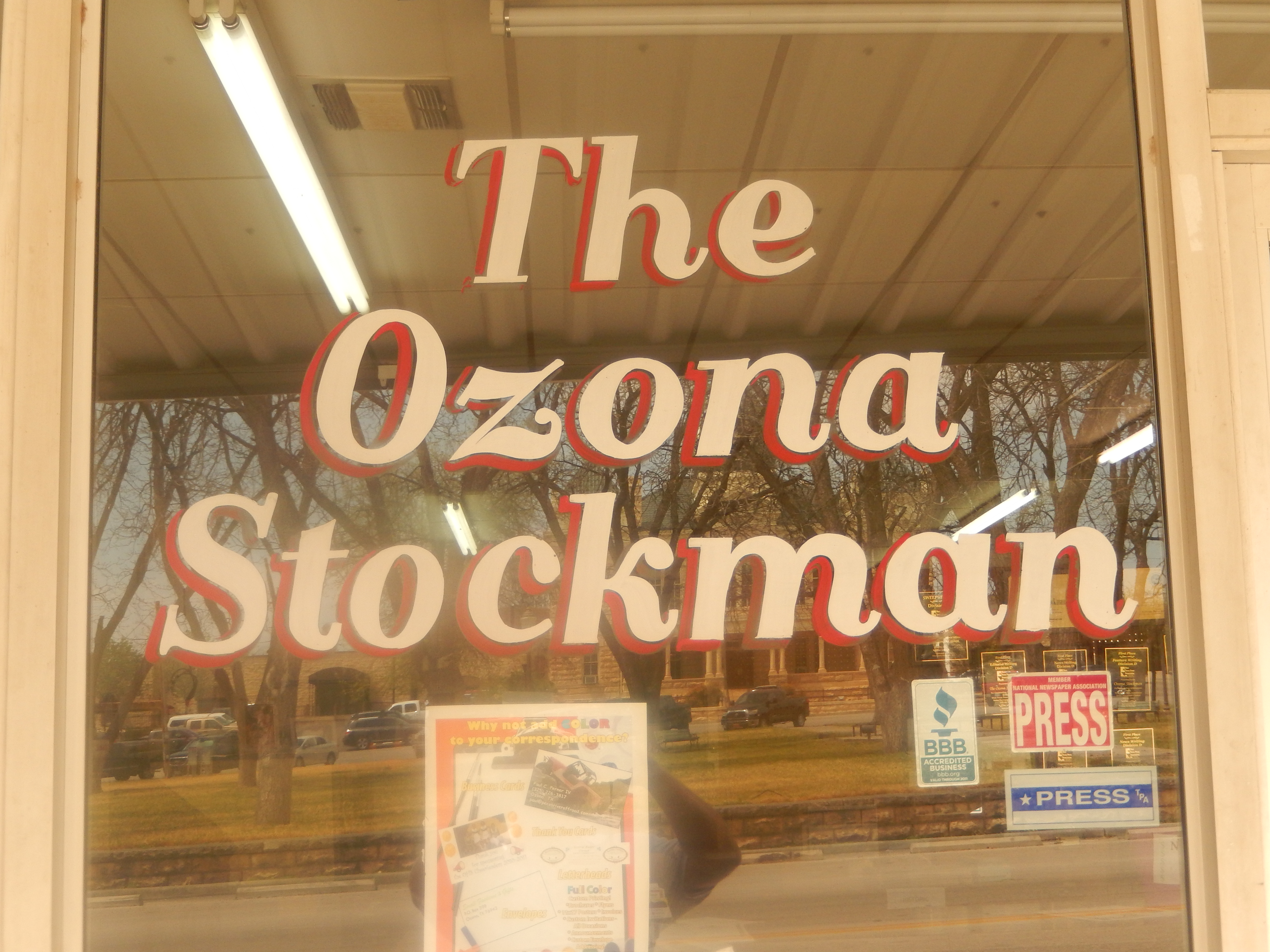 I took photo of Ozona Stockman newspaper and print building in Ozona, TX, with Nikon camera.